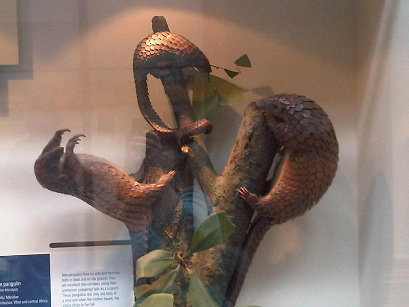 Taxidermied Tree Pangolins (Phataginus tricuspis - syn: Manis tricuspis) at the Natural History Museum in London, England.